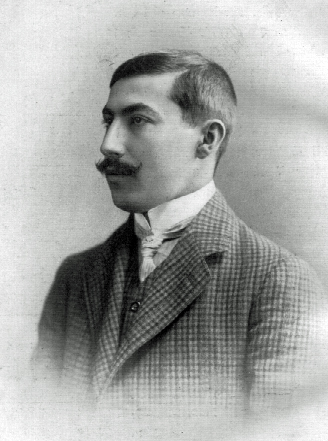 Photo of Akiba Rubinstein